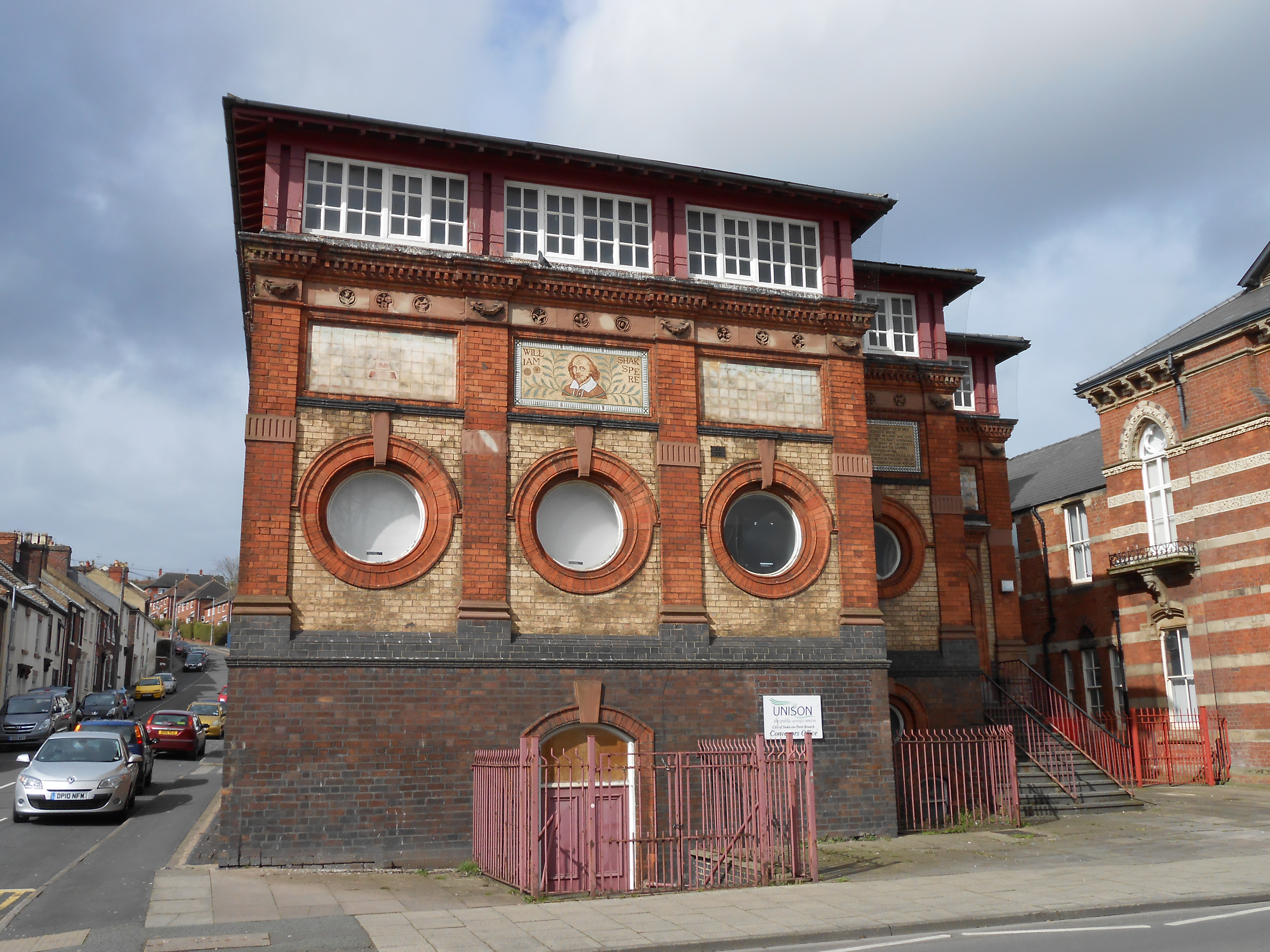 The Library Building on London Road, Stoke-on-Trent, England.